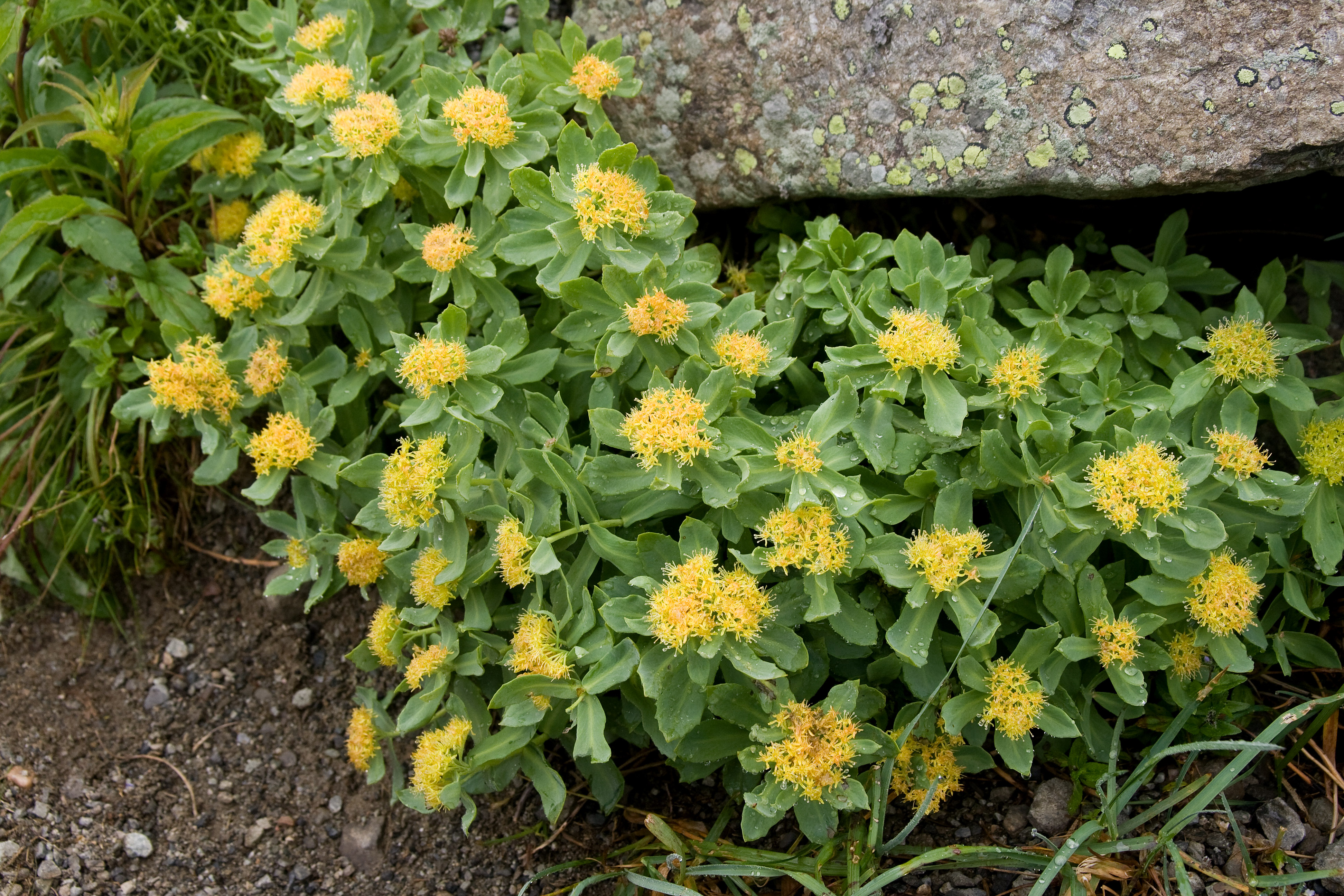 Rhodiola rosea